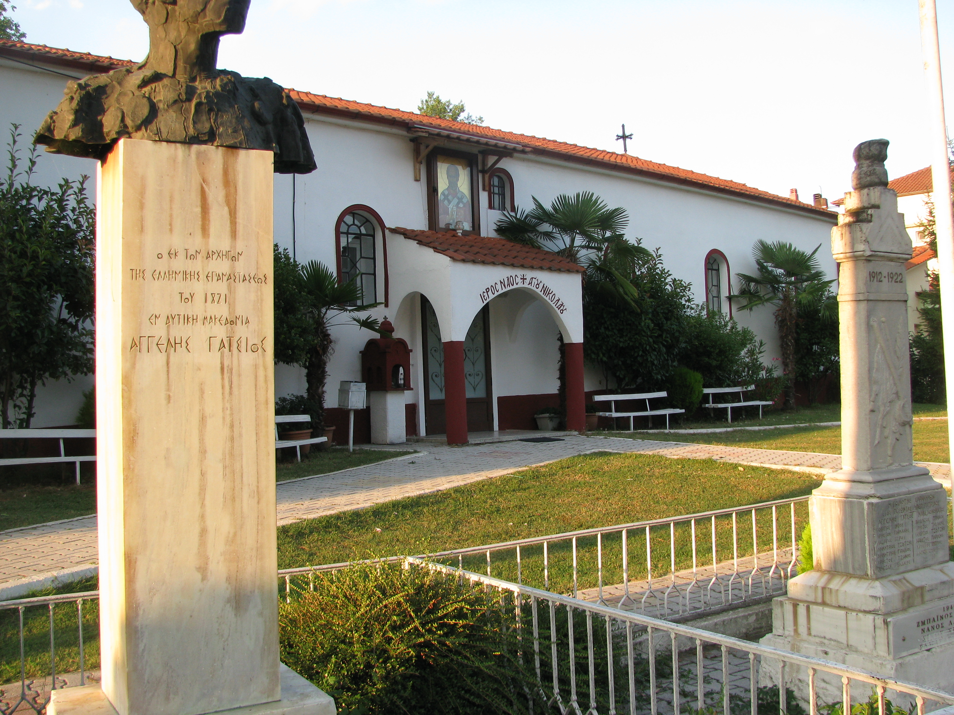 Sarakinovo church